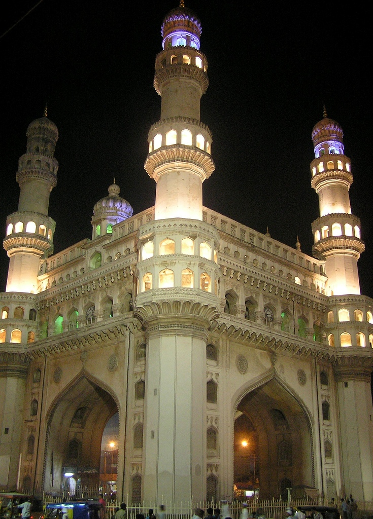 Taken by: Oumm Uploaded to Wiki by user:nikkul